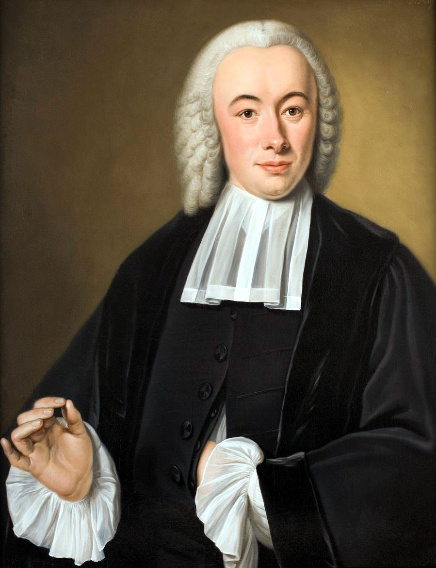 Bavius Voorda (1729-1799) Dutch lawyer